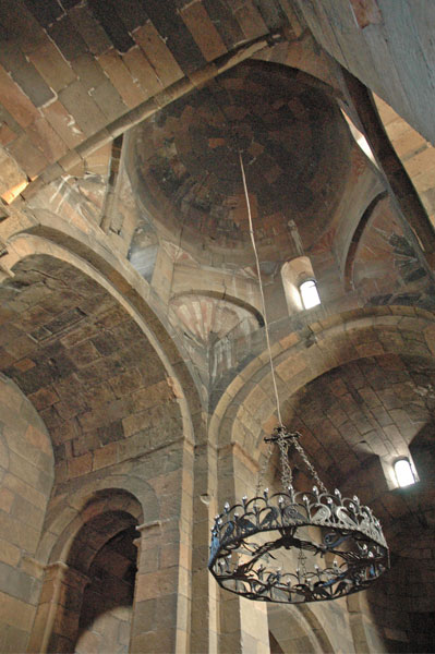 St. Gayane church, Echmiadzin, Armenia